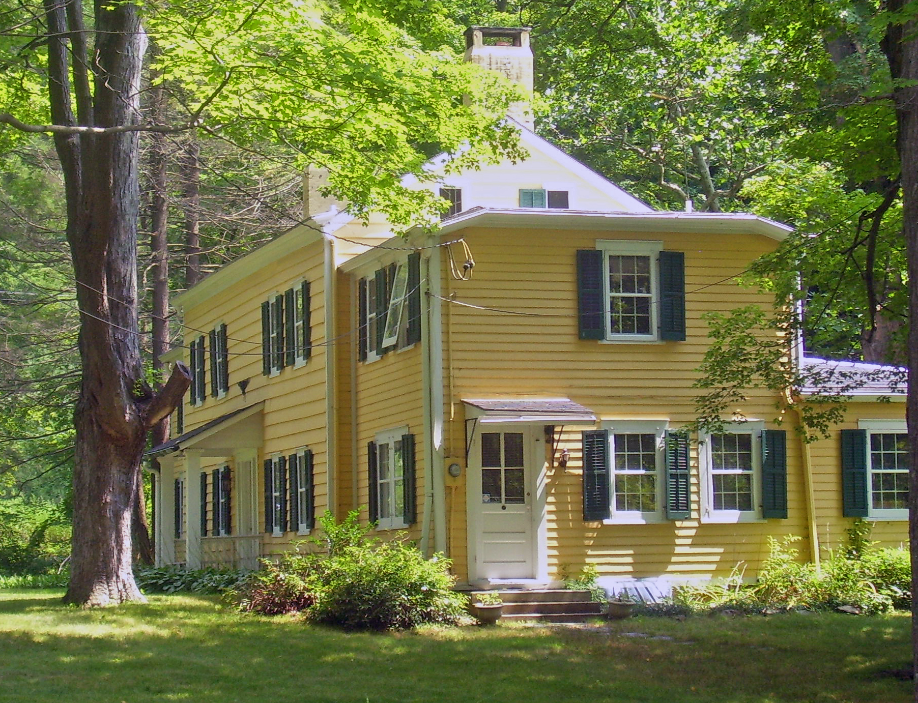 Samuel Warren House, ca. 1800, a contributing property to the Indian Brook Road Historic District in Garrison, NY, USA